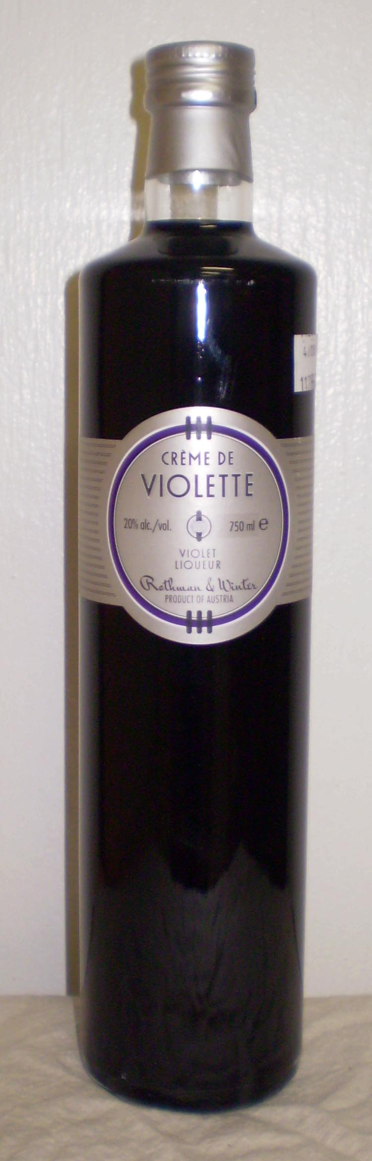 Bottle of Rothman & Winter Creme de Violette Just in case anyone is confused-- I, the uploader, photographed this bottle myself.